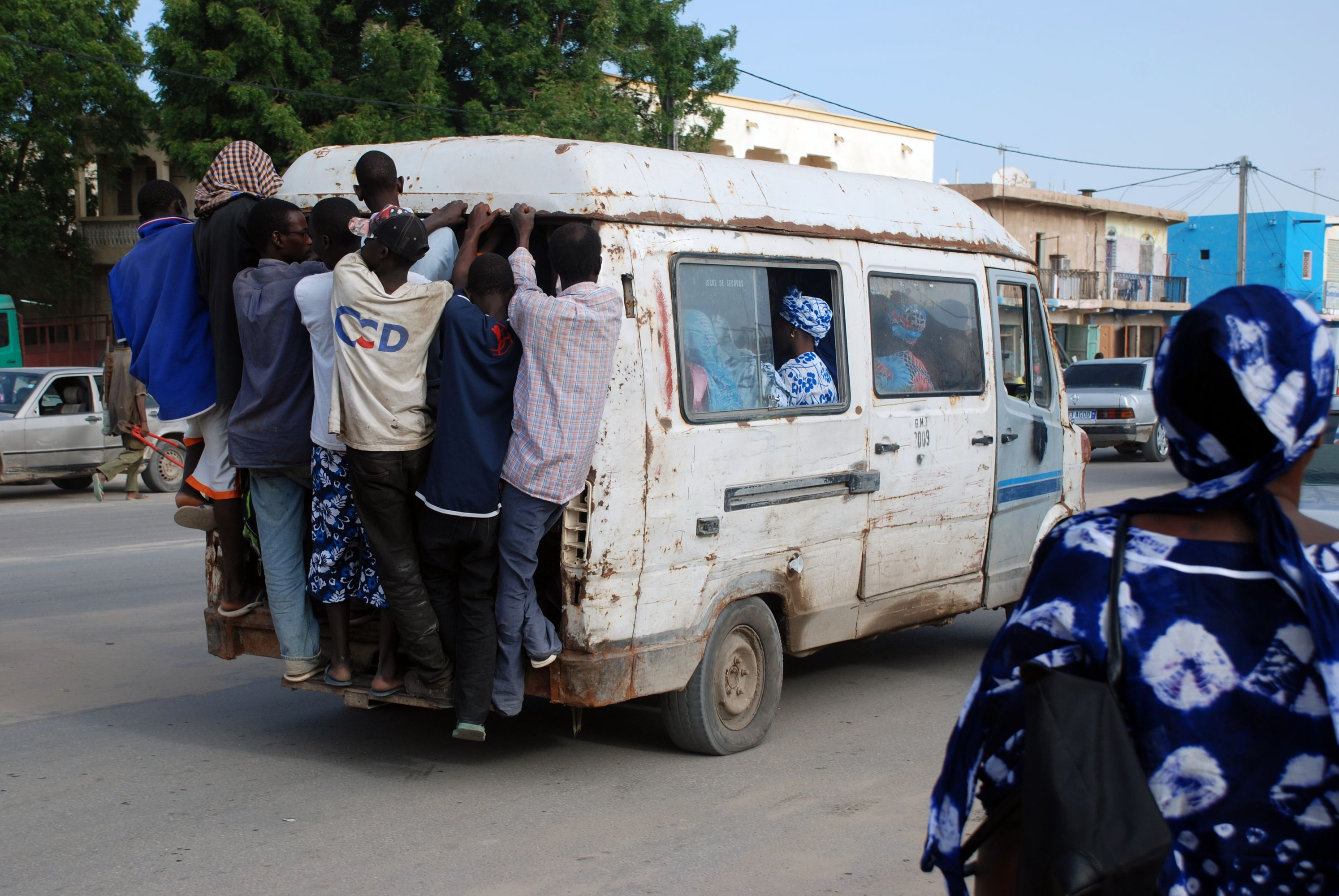 Nouakchott, public transport